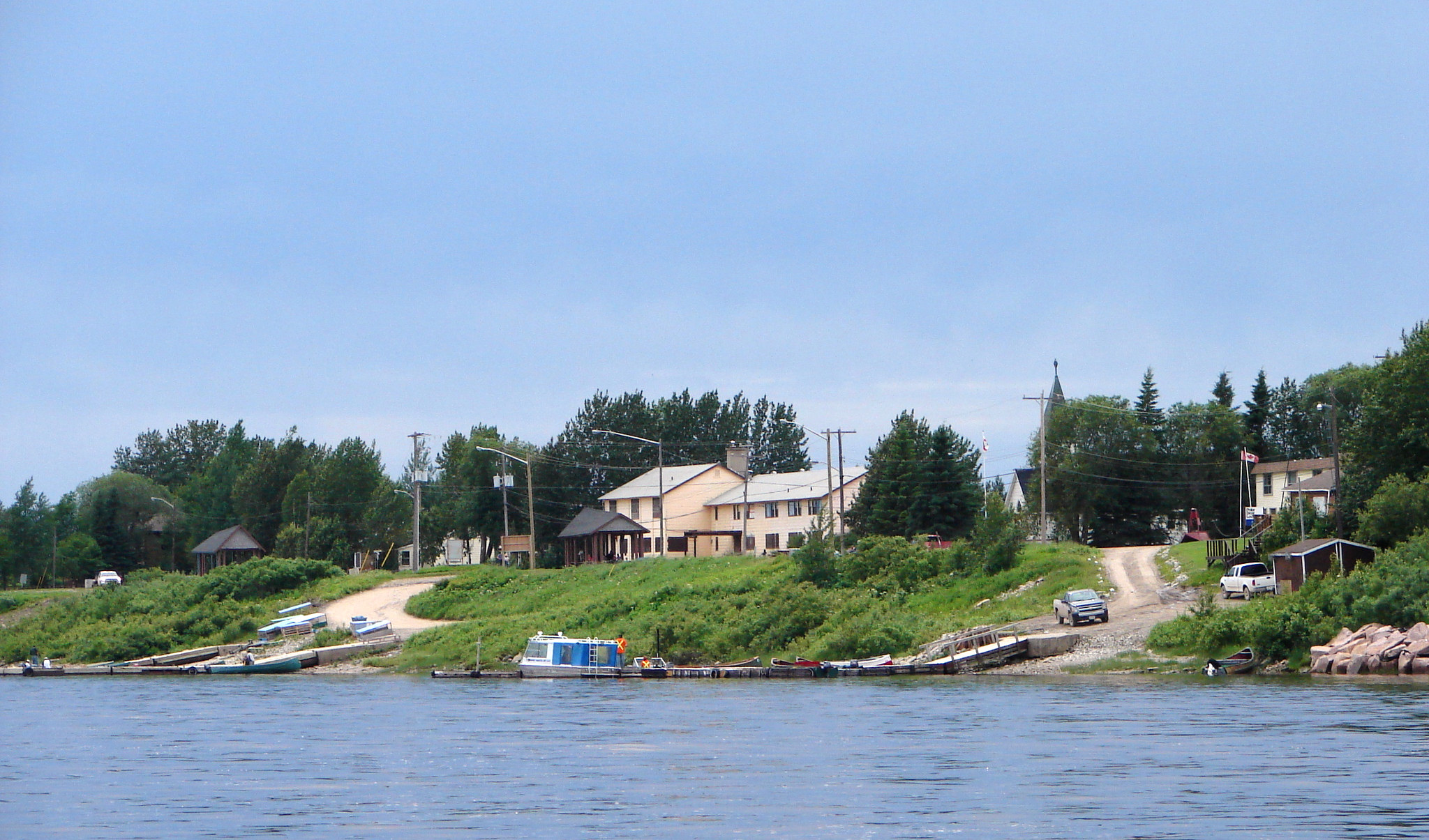 Waterfront of Moosonee along the Moose River, Ontario, Canada